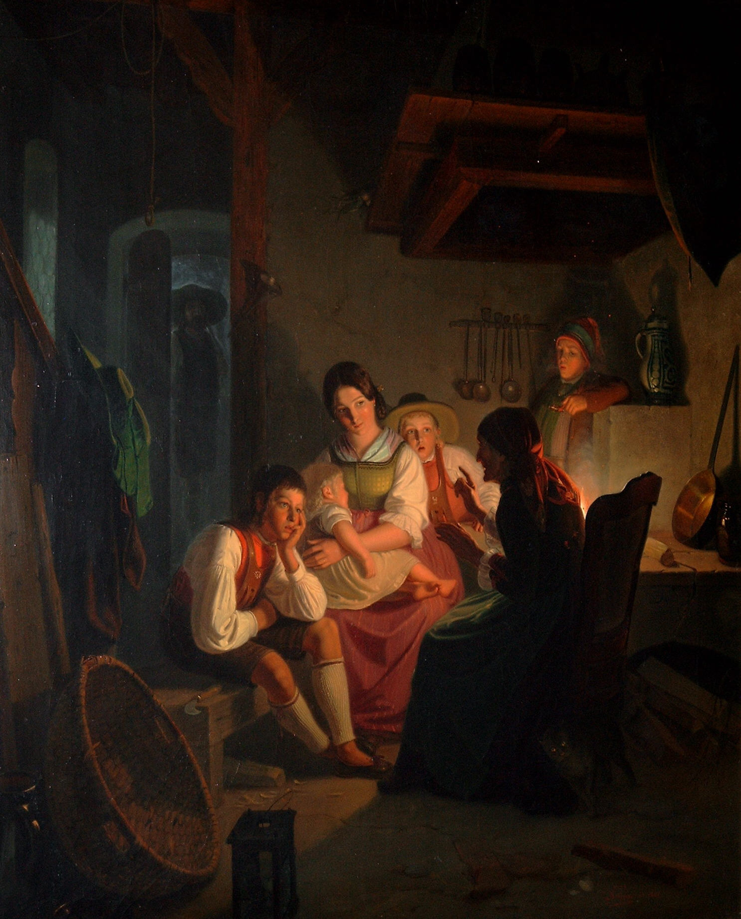 Grandma tells tales. Oil on canvas Friedrich Wilhelm Schoen, 1845